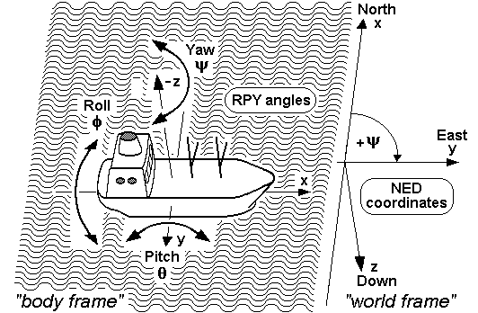 Roll-pitch-yaw angles of ships and other water vehicles